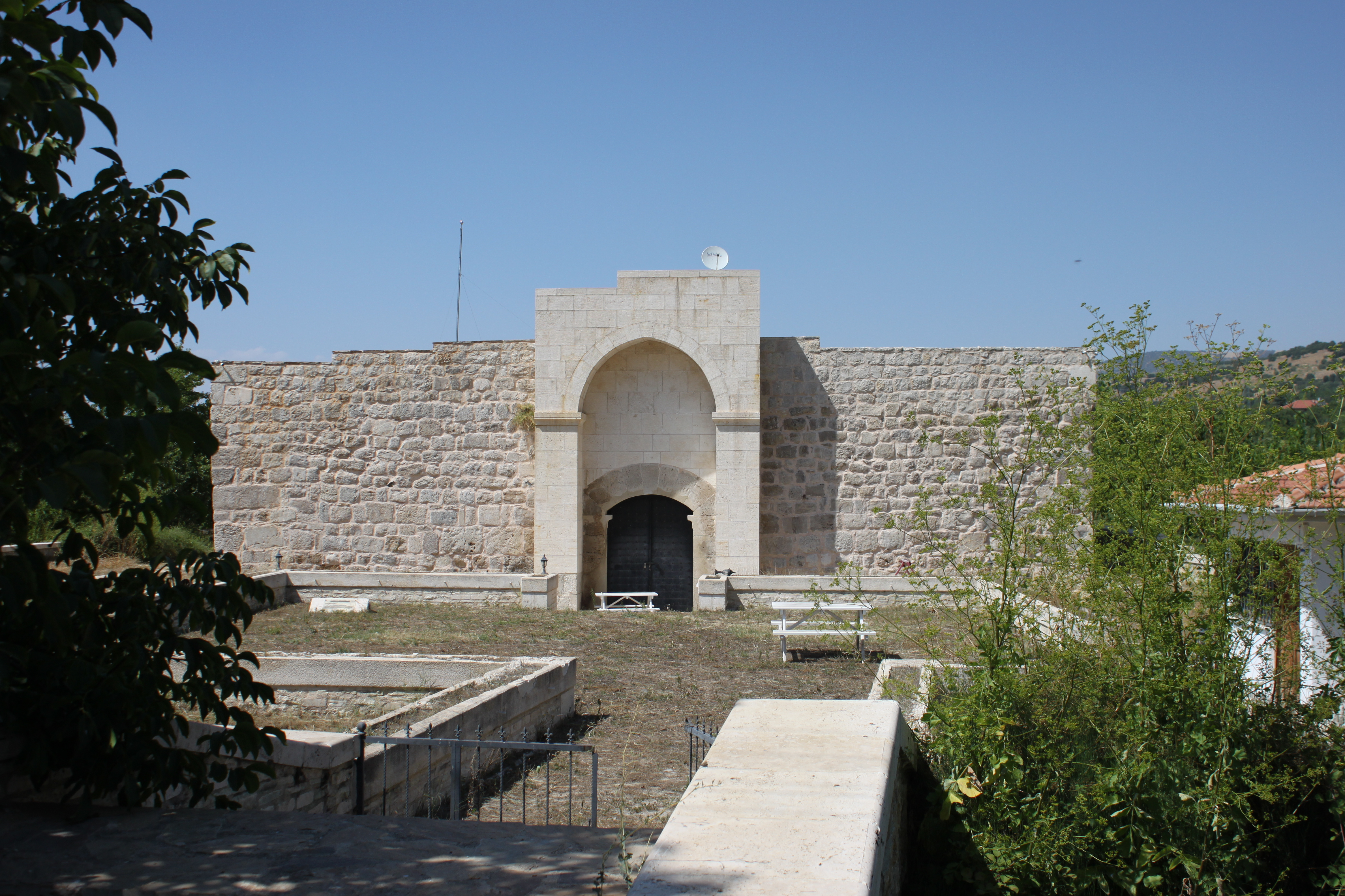 Ertokuş Kervansaray of 1224; south side.